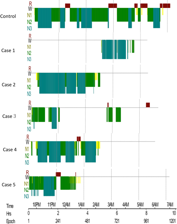 No changes made. Diagram of an FFI experiment, showing the sleep patterns of the healthy control and the five infected cases.